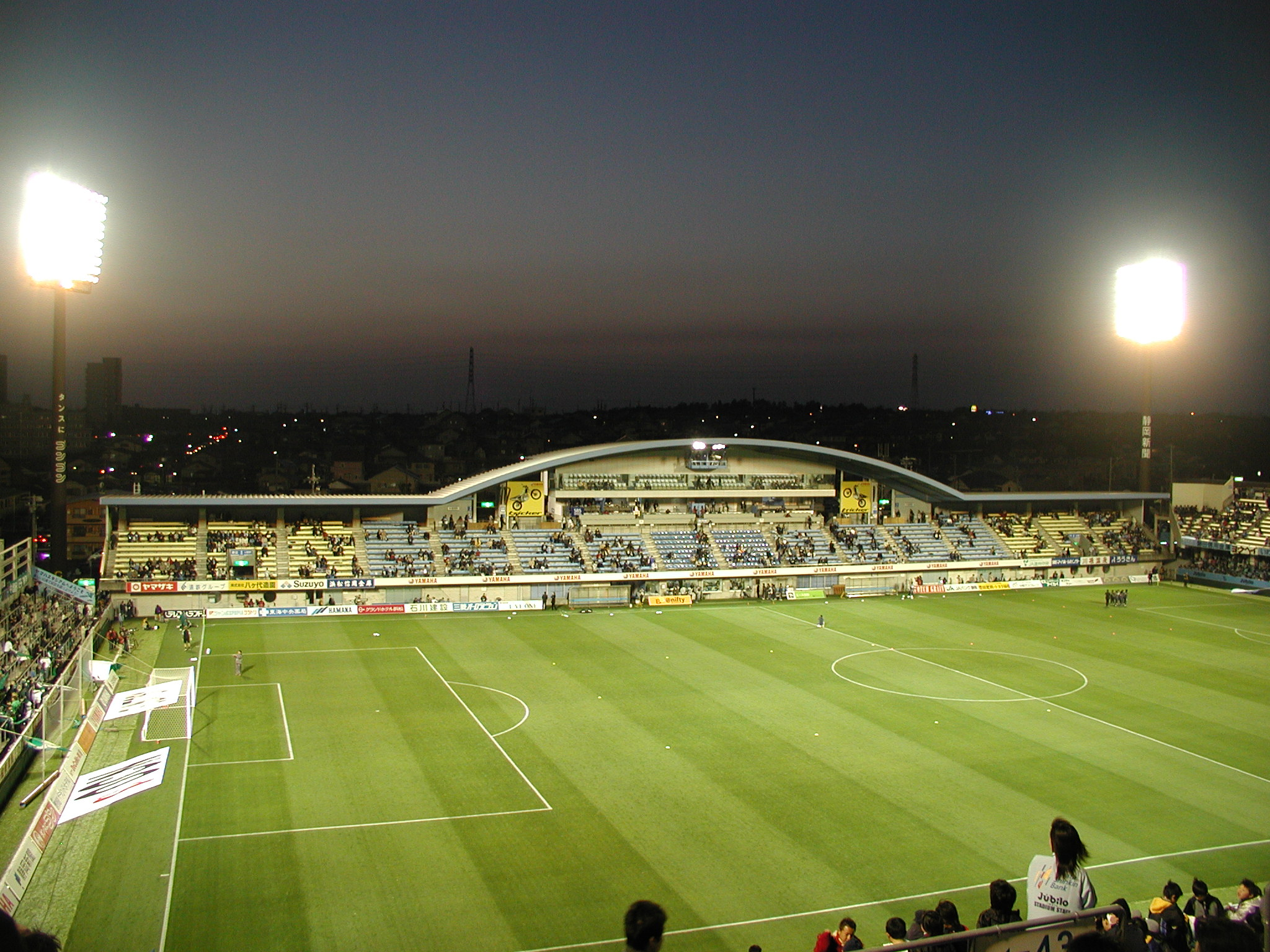 Picture of Yamaha Stadium in Iwata, Shizuoka, Japan taken on 3/14/2005 by Teddy Yoshida.